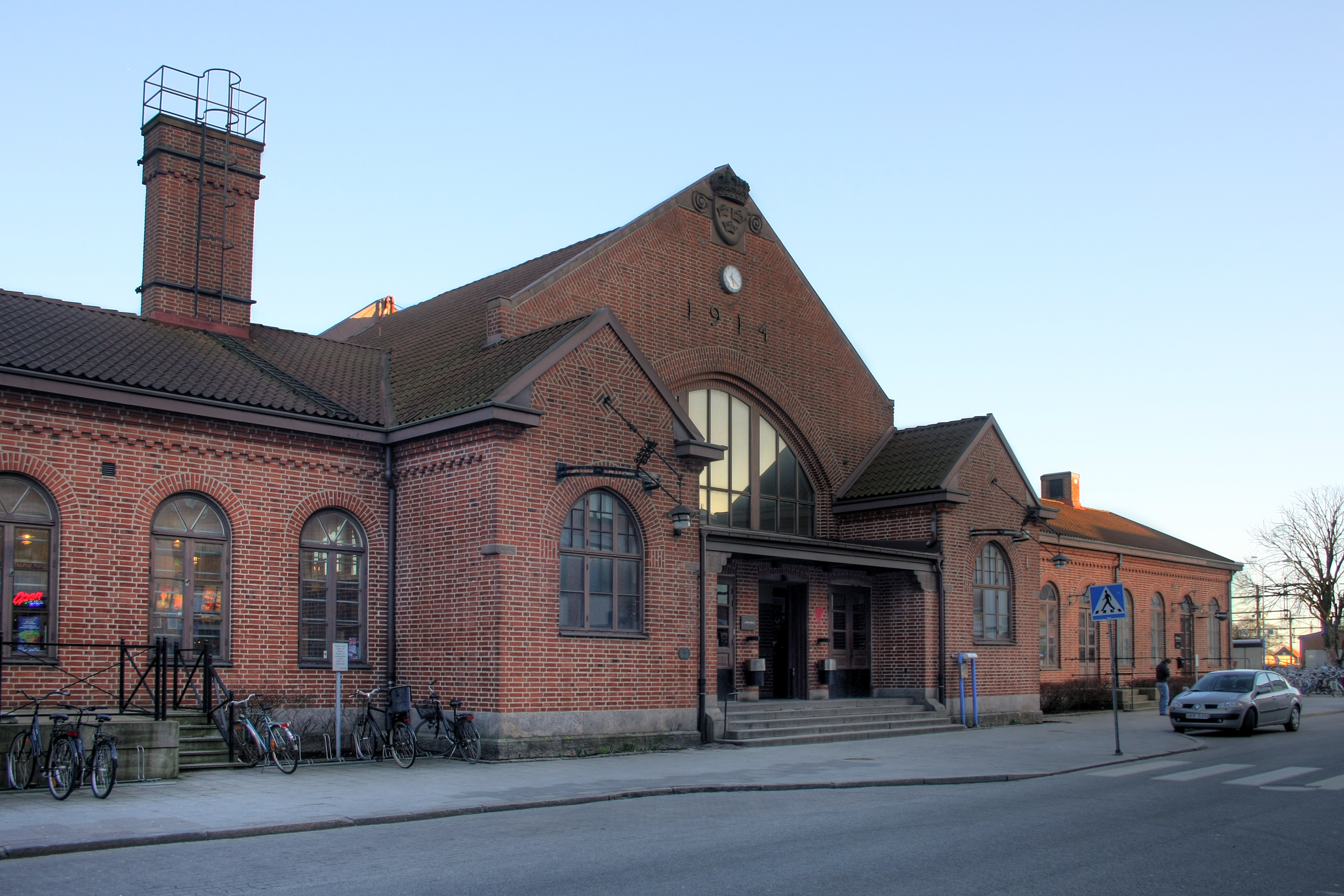 Eslöv train station in Eslöv, Sweden